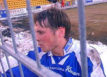 Molde F.C. player Petter Christian Singsaas after playing Lillestrøm away in 2000